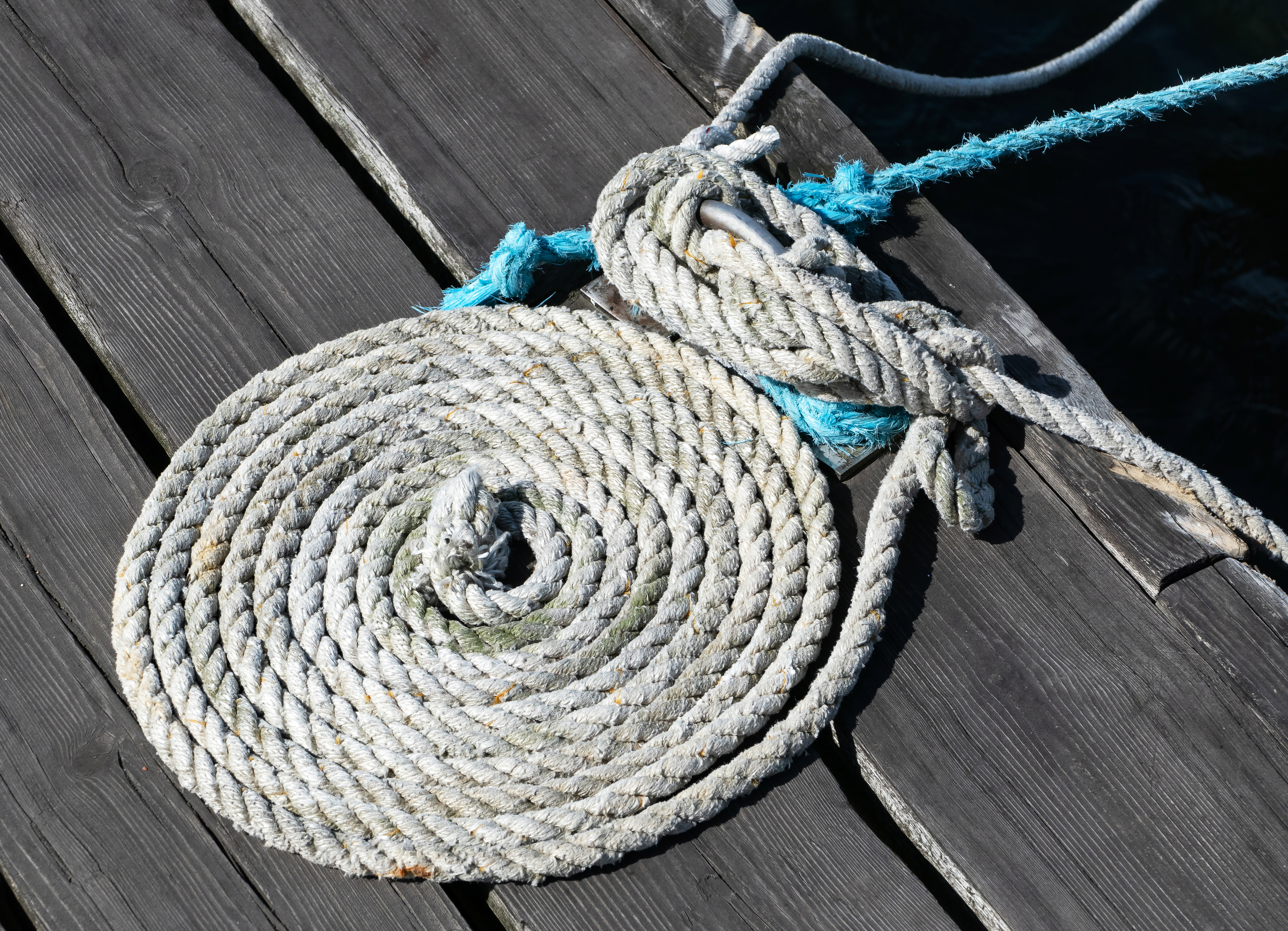 Coiled white mooring ropes on a jetty in Govik, Lysekil Municipality, Sweden.